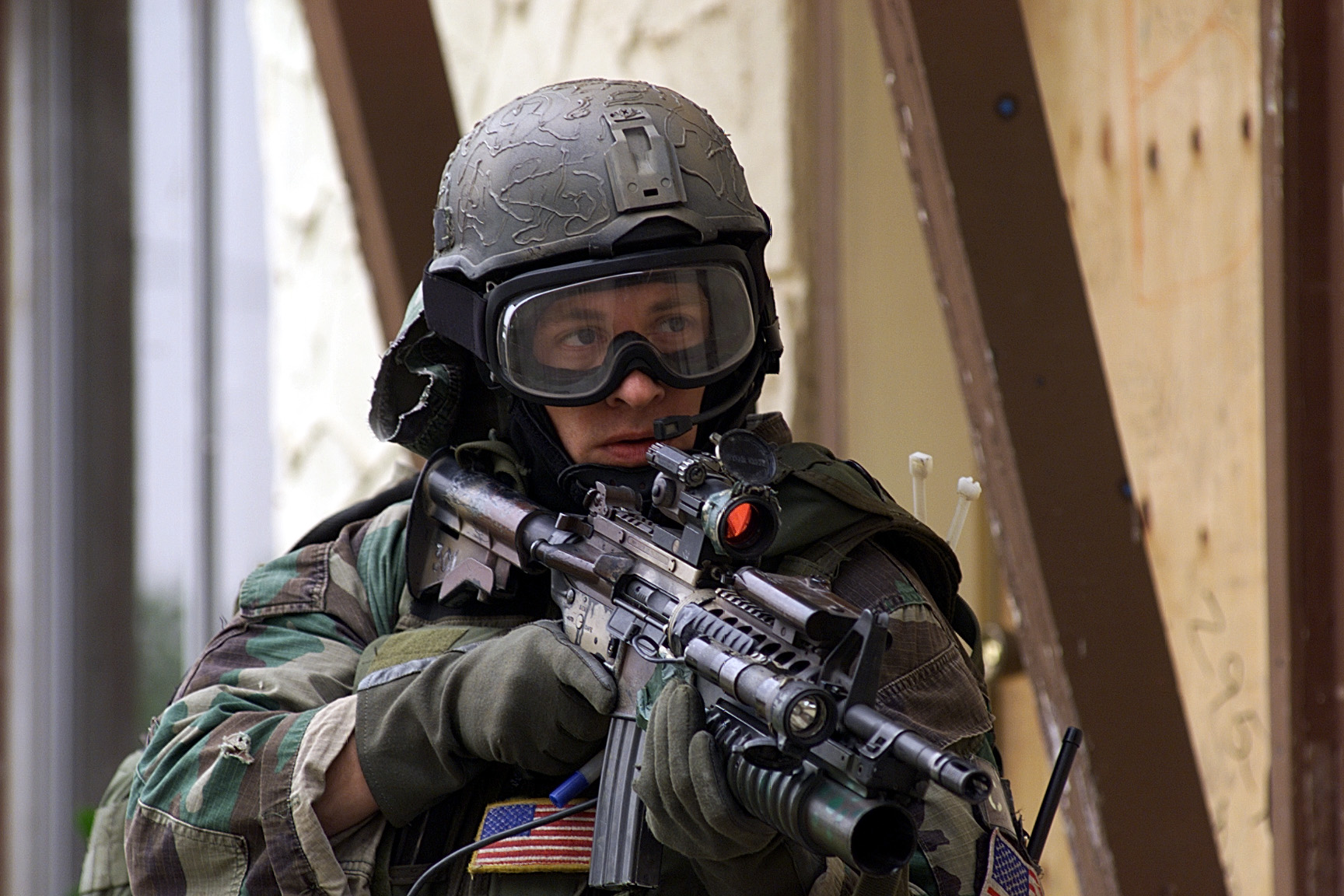 A Special Forces Soldier prepares to breach an entryway while training in close quarters battle tactics at Fort Bragg, N.C.